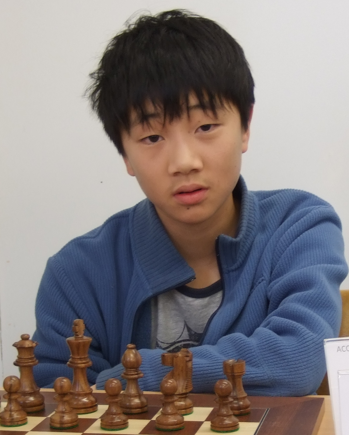 Australian Chess Player Bobby Cheng in July 2010